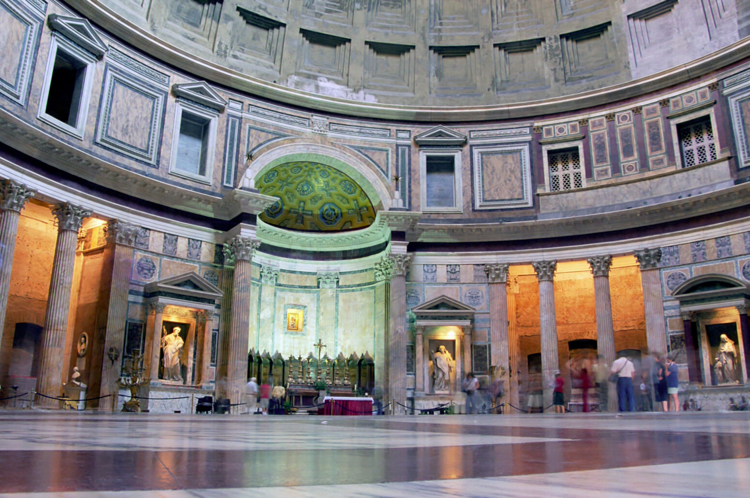 Pantheon in Rome